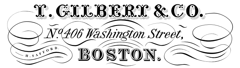 Traced from original stamped gold leaf label of T. Gilbert & Co., Boston square piano manufactured ca.1835-1845